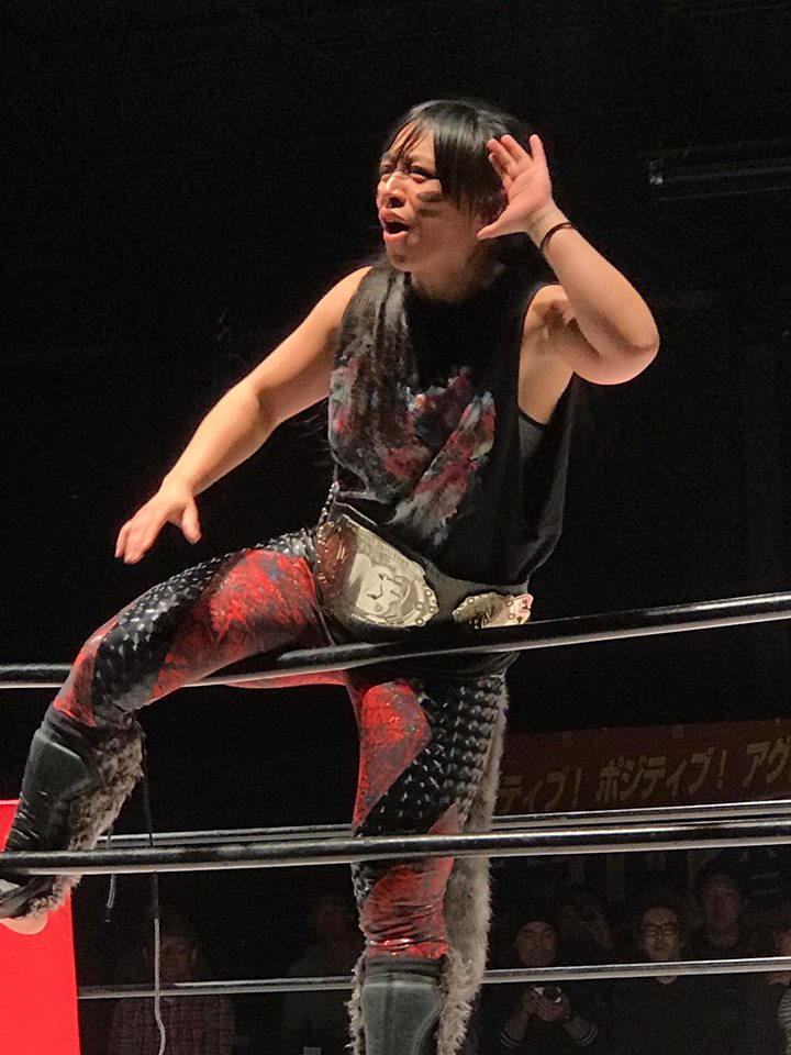 Kris Wolf's first title defense at Shinkiba 1st Ring